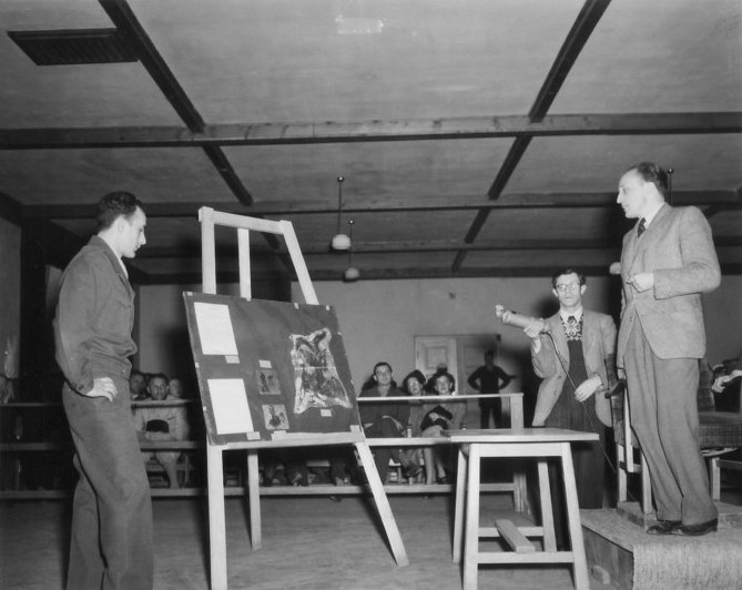 "16 Apr. At the Buchenwald War Crimes Trial, Dachau, Germany, is shown from l-r: Mr. Surowitz, one of the prosecutors; Werner Klein, radio reporter; and Dr. Sitte, witness for the prosecution. Dr. Sitte is shown identifying human skin from dead prisoners at Buchenwald concentration camp."